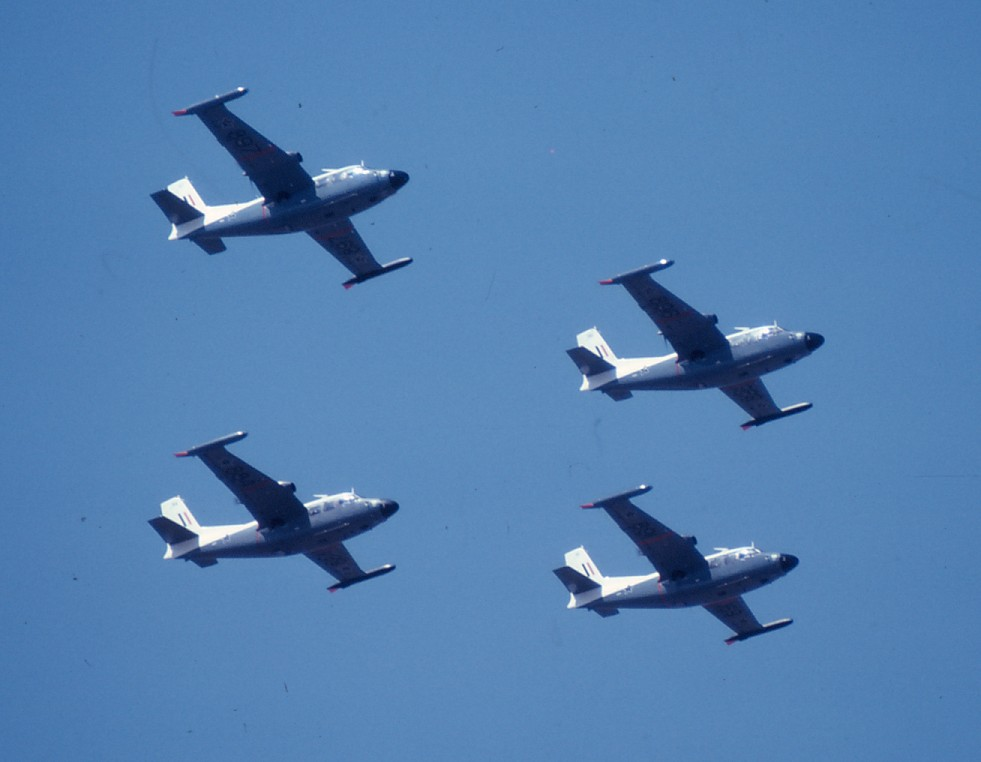 Albatross formation at AFB Ysterplaat